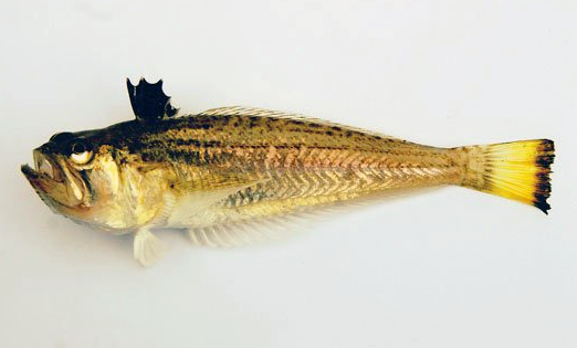 Echiichthys vipera